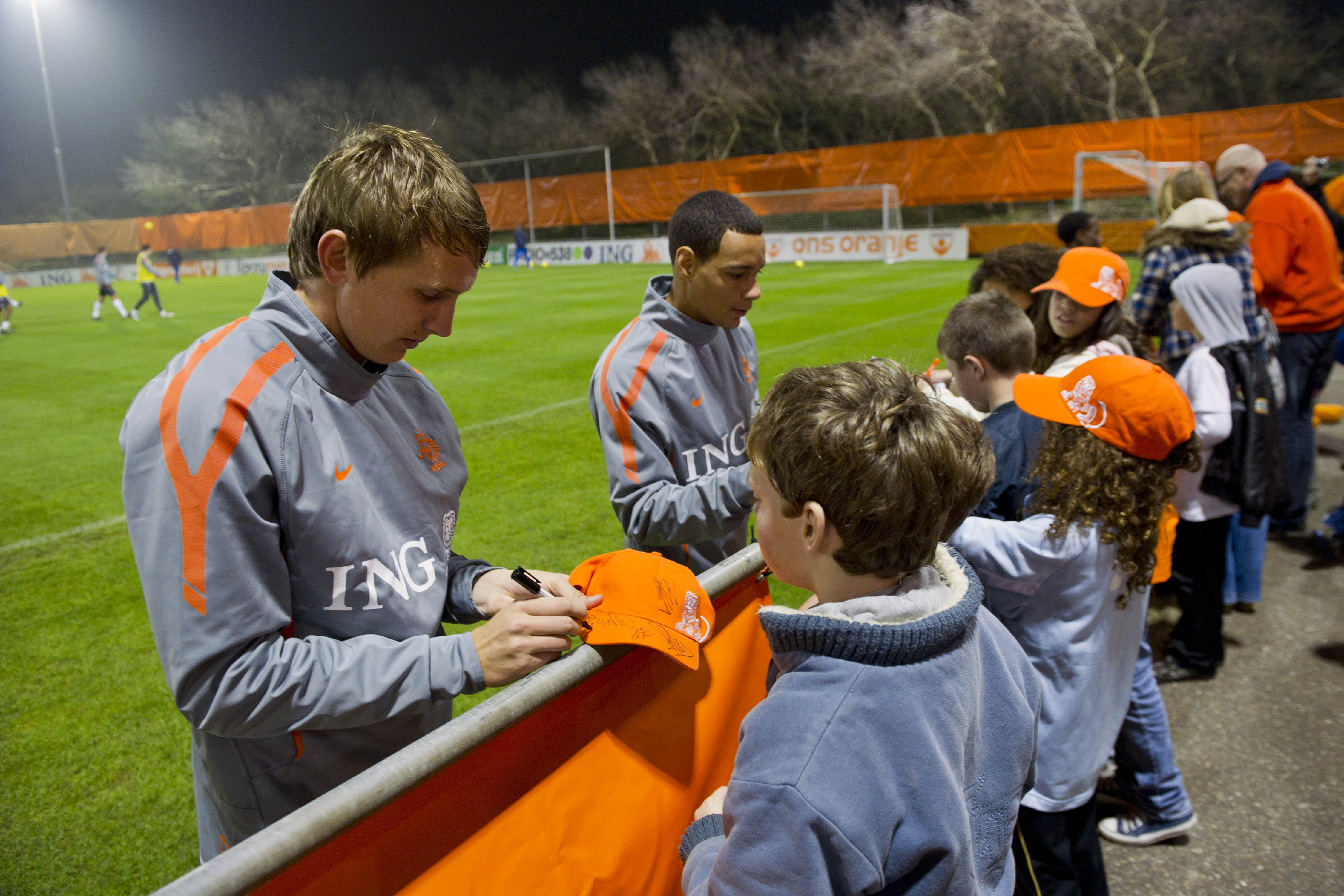 Luuk de Jong and Gregory van der Wiel signing autographs at a Netherlands national team training session on 7 November 2011.